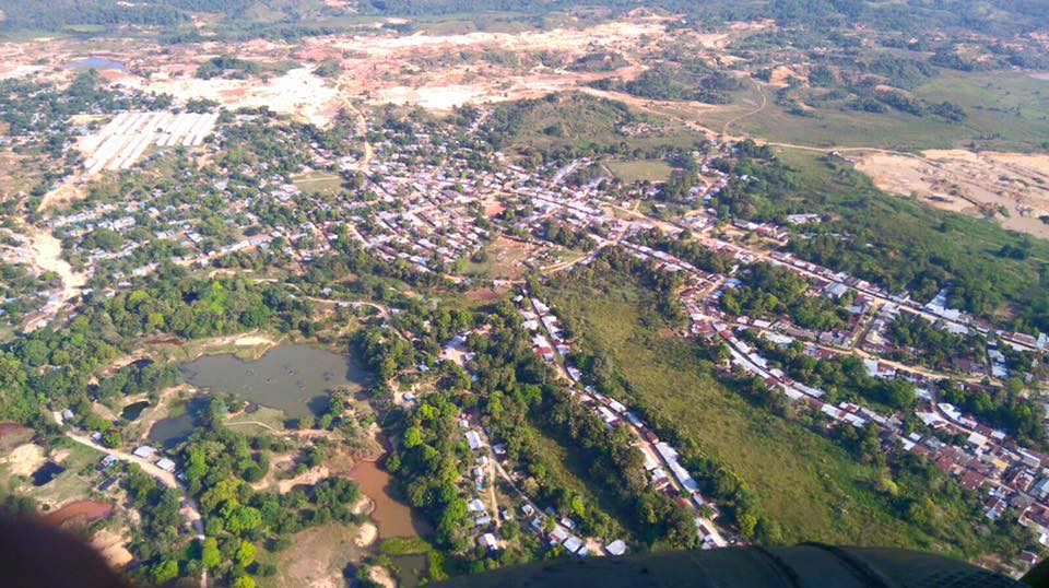 Puerto Claver City